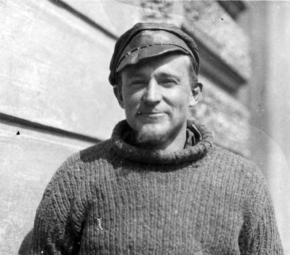 Merian C. Cooper at the Latvian border after his time in the Soviet POW camp. MSS P 2008 OS67 Merian C. Cooper photographs, L. Tom Perry Special Collections, Brigham Young University